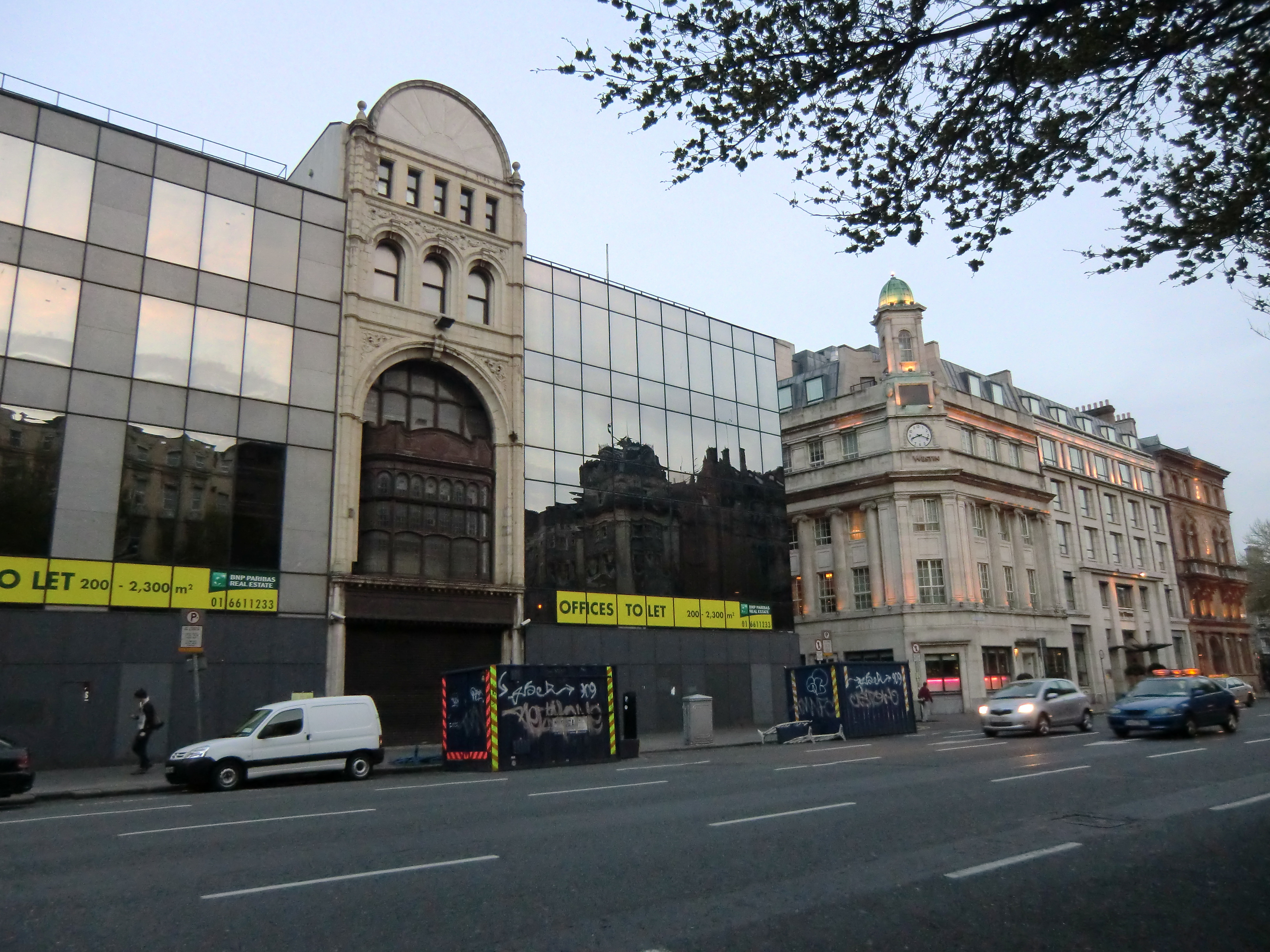 Westmoreland Street, Dublin, Ireland